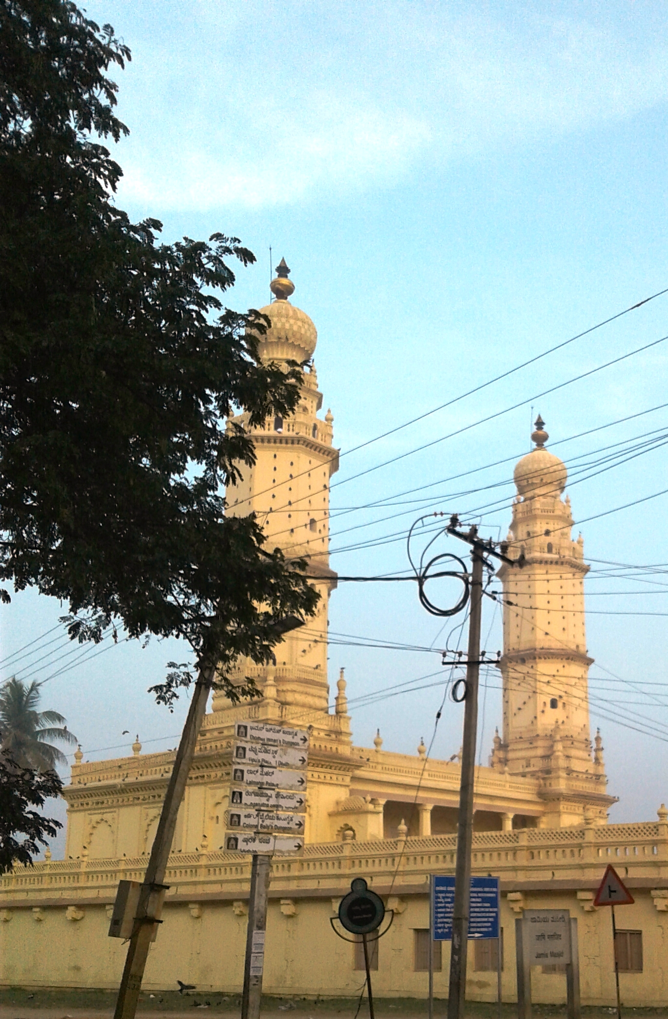 Srirangapatna, Mandya district, Karnataka state, India.